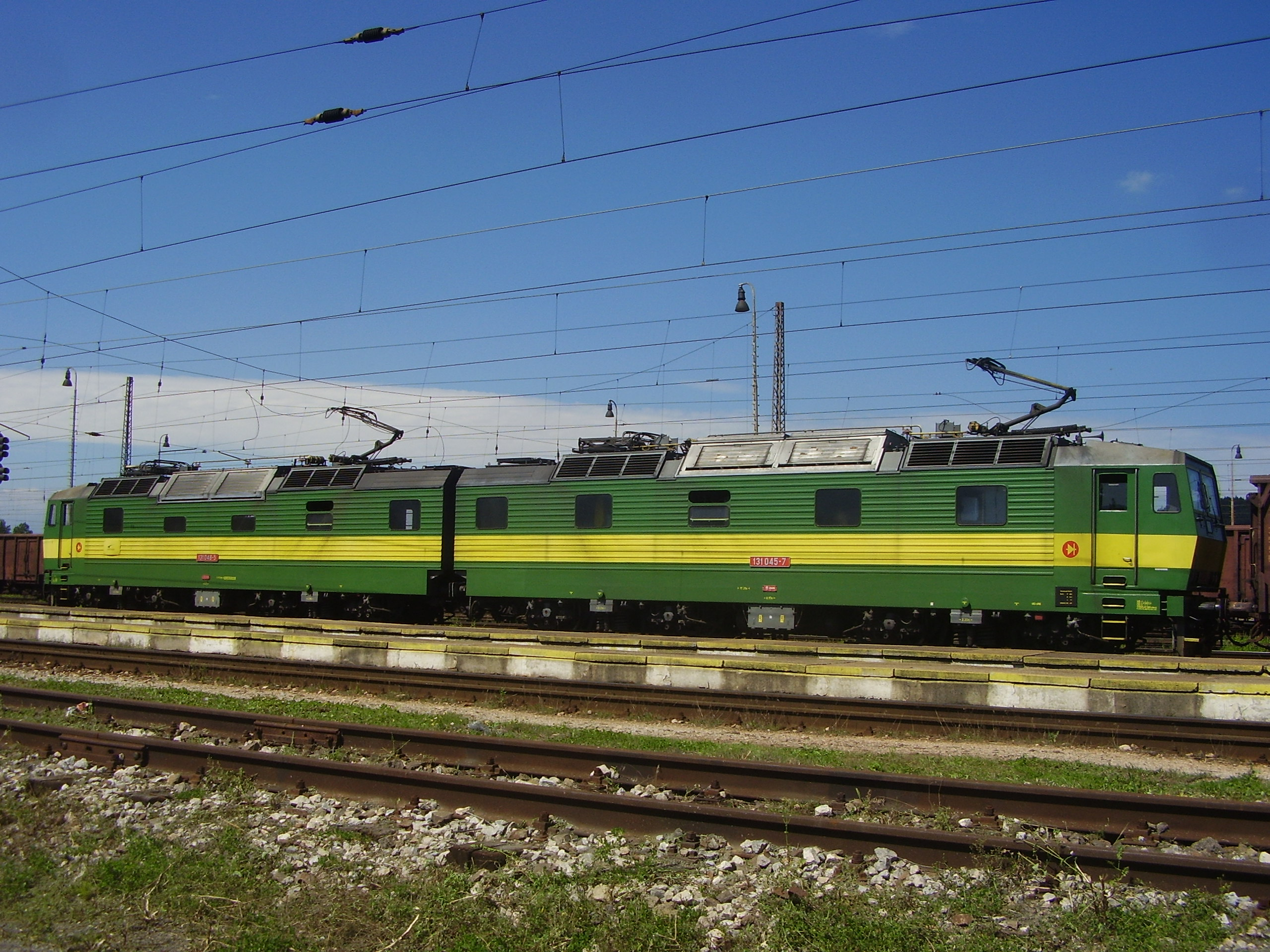 Electric locomotive type 131, Spišská Nová Ves, Slovakia